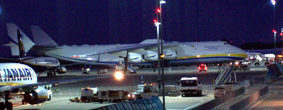 The Antonow An-225 at Frankfurt-Hahn airport after having been loaded with the biggest single piece of freight in the history of airflight, a generator of 189 to for Eriwan, short before lift-off.